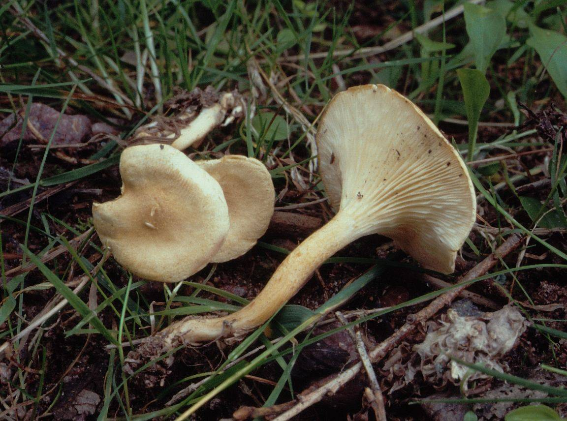 Hygrophoropsis macrospora (D.A. Reid) Kuyper